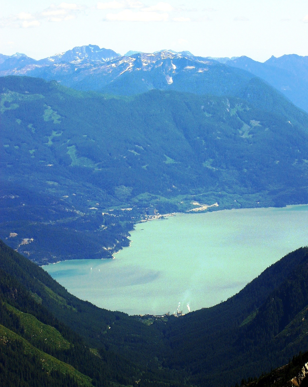 Photo by me Taken: July, 2005 Attribution req'd as per license